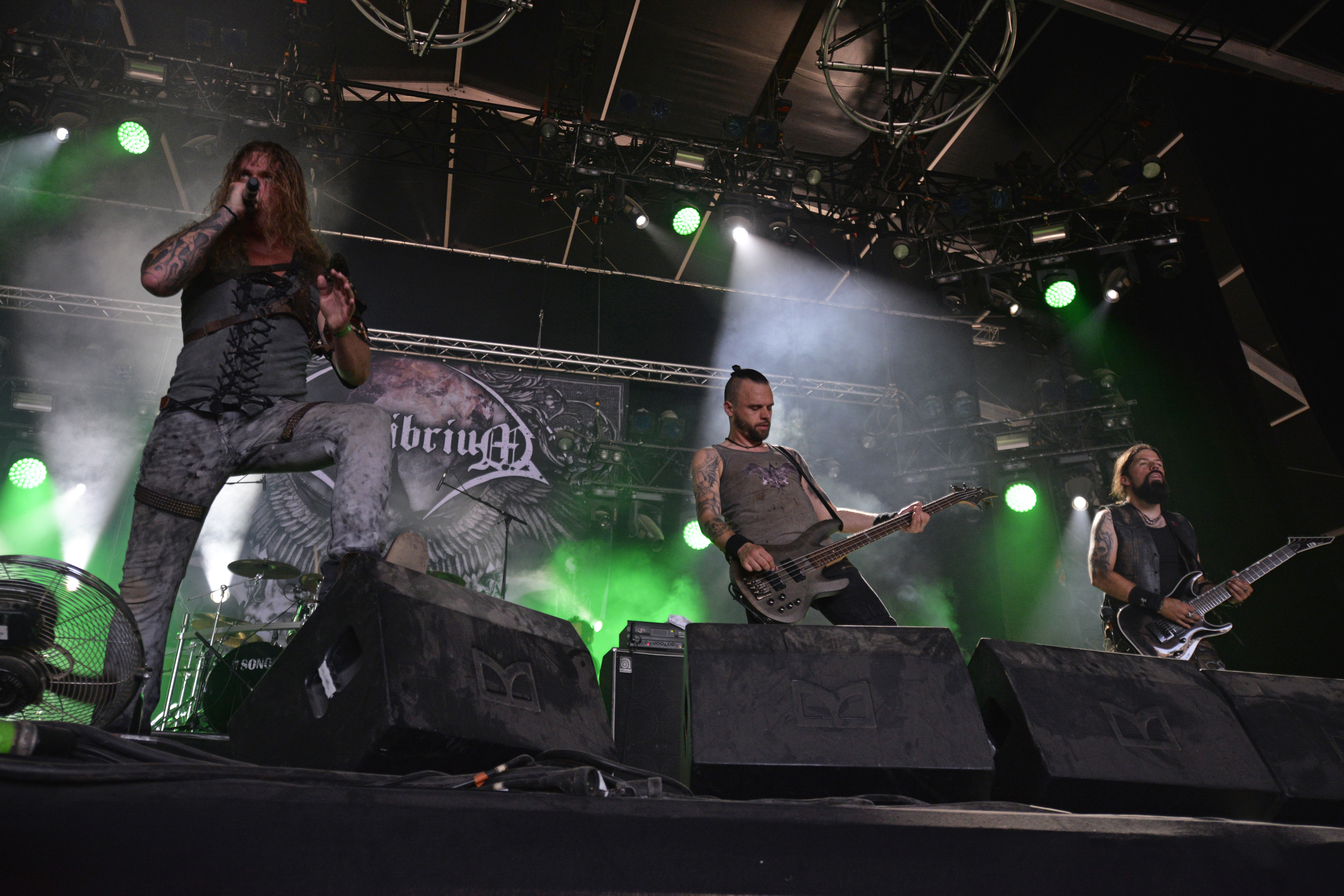 German group Equilibrium at 2017 Hellfest, France.